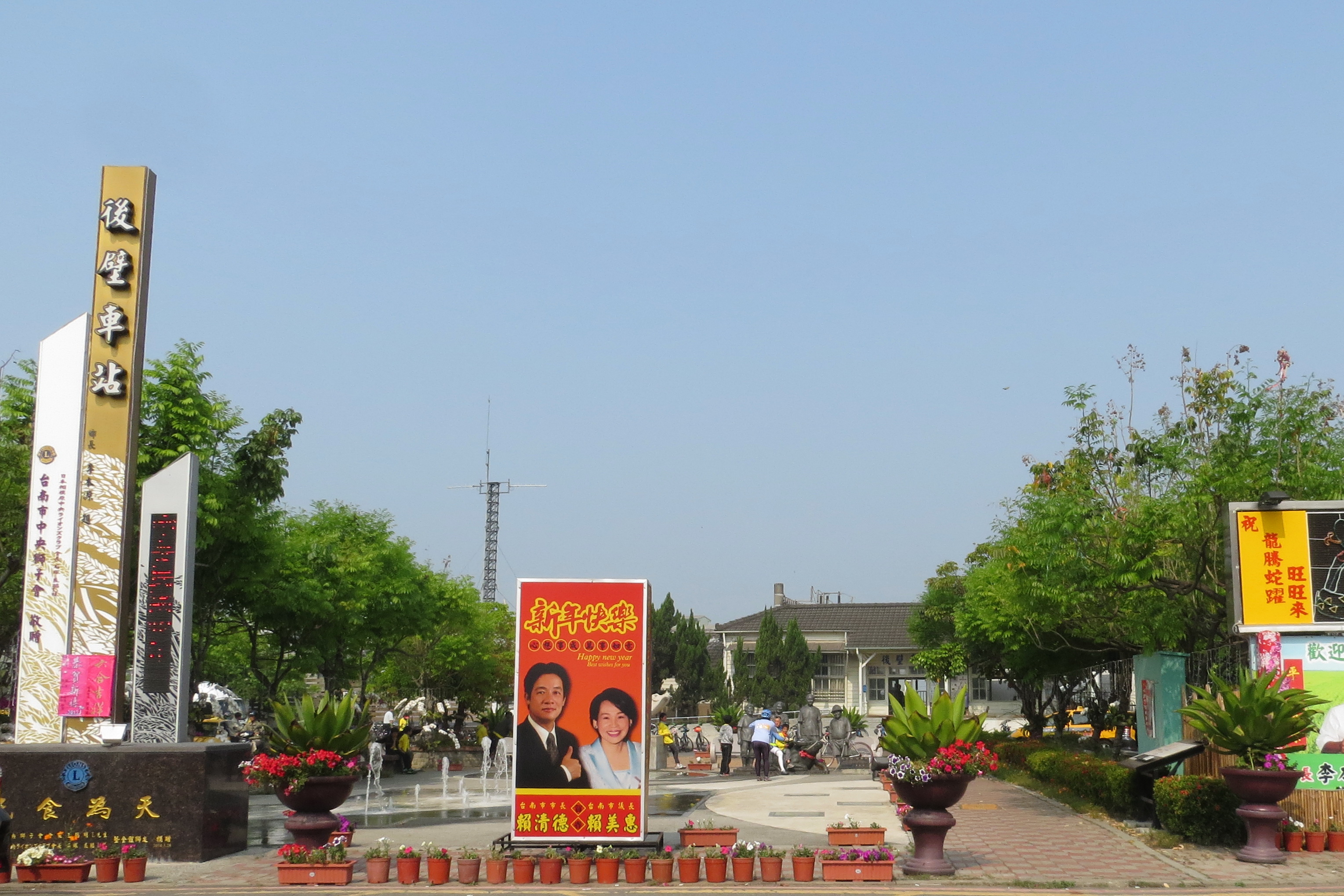 TRA Houbi Station. The road at the front is the Provincial Highway 1.